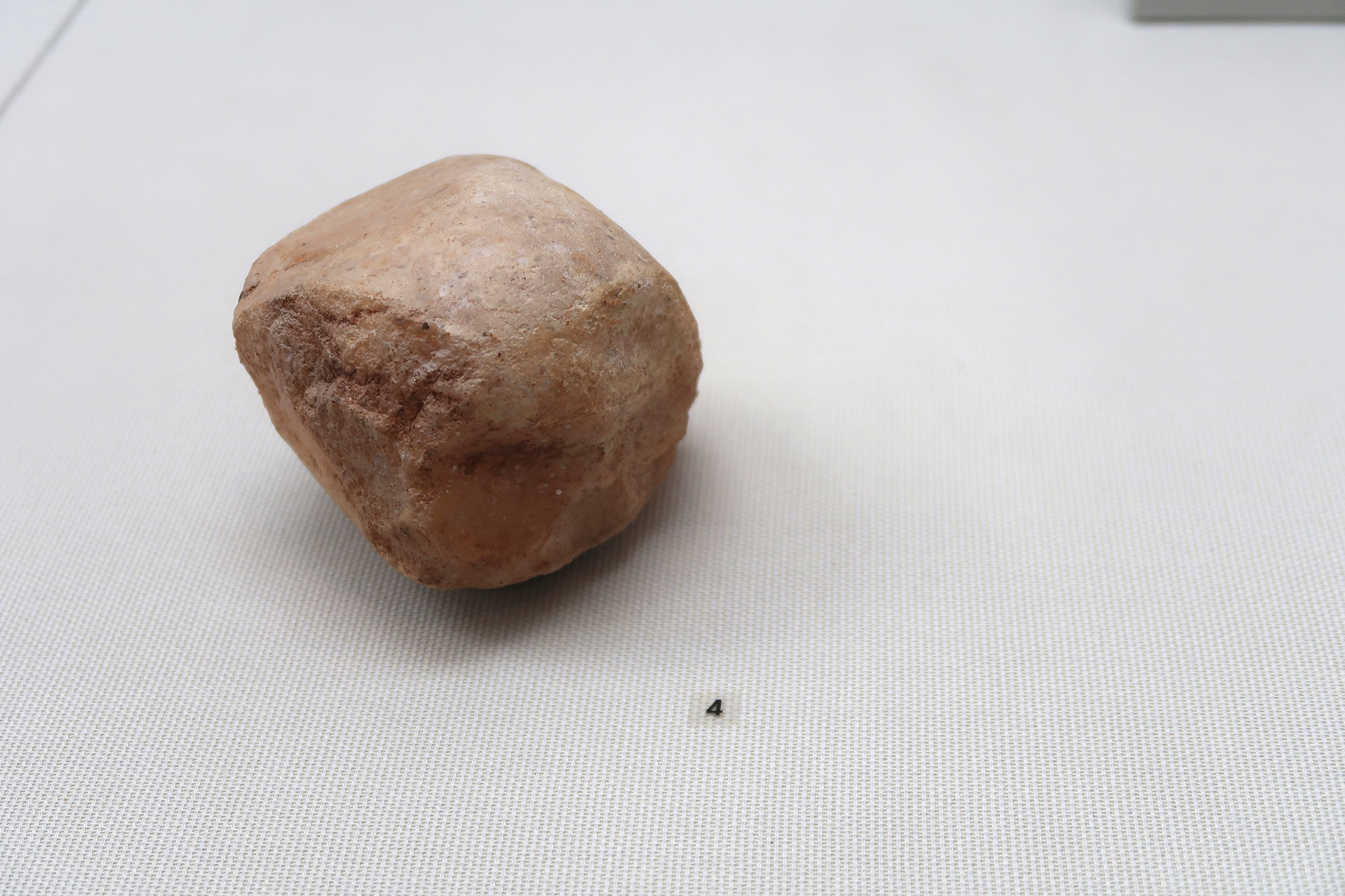 Polyhedron. Gonju Seokjangni. Middle Paleolithic. Yonsei University Museum, Seoul